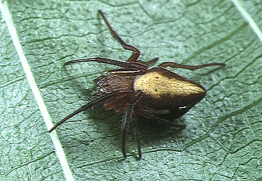 female Araneus ryukyuanus from Okinawa.